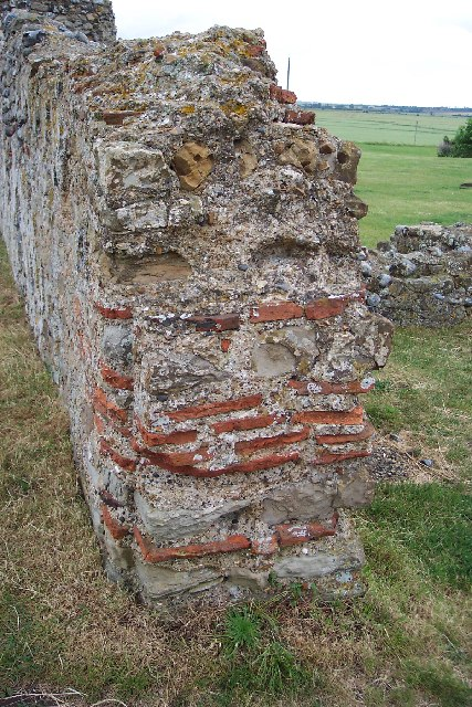 Part of the south wall of the ruined church of St Mary at Reculver, which was mostly demolished in the early 19th century. This view is facing slightly south of east. The masonry includes re-used Roman materials, or spolia, such as the red tiles visible here, taken from the remains of the Roman fort on the site of which the church was first built in the 7th century.